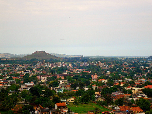 View of Morro do Mirante